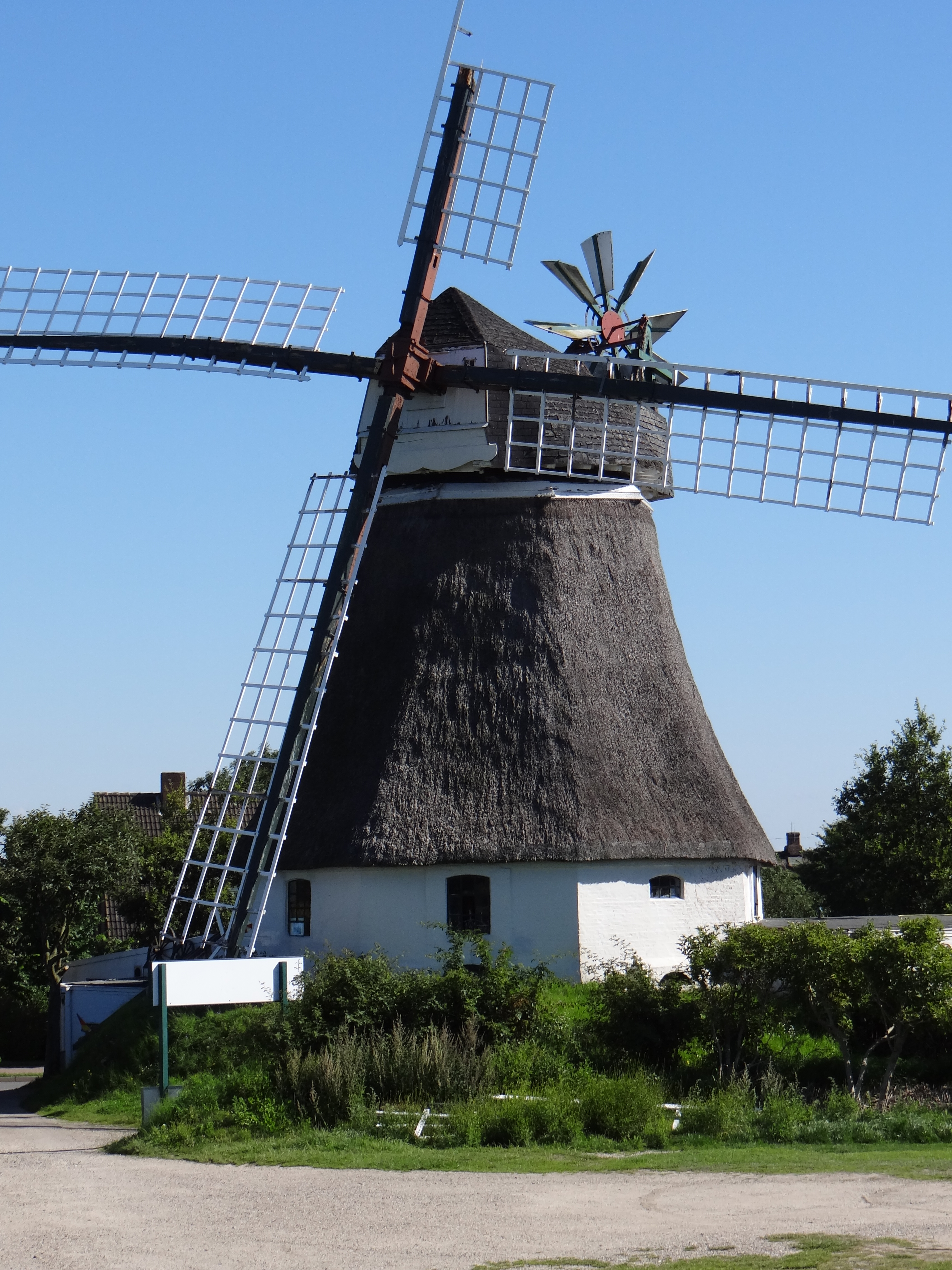 Windmill in Wrixum on the island of Föhr, Germany